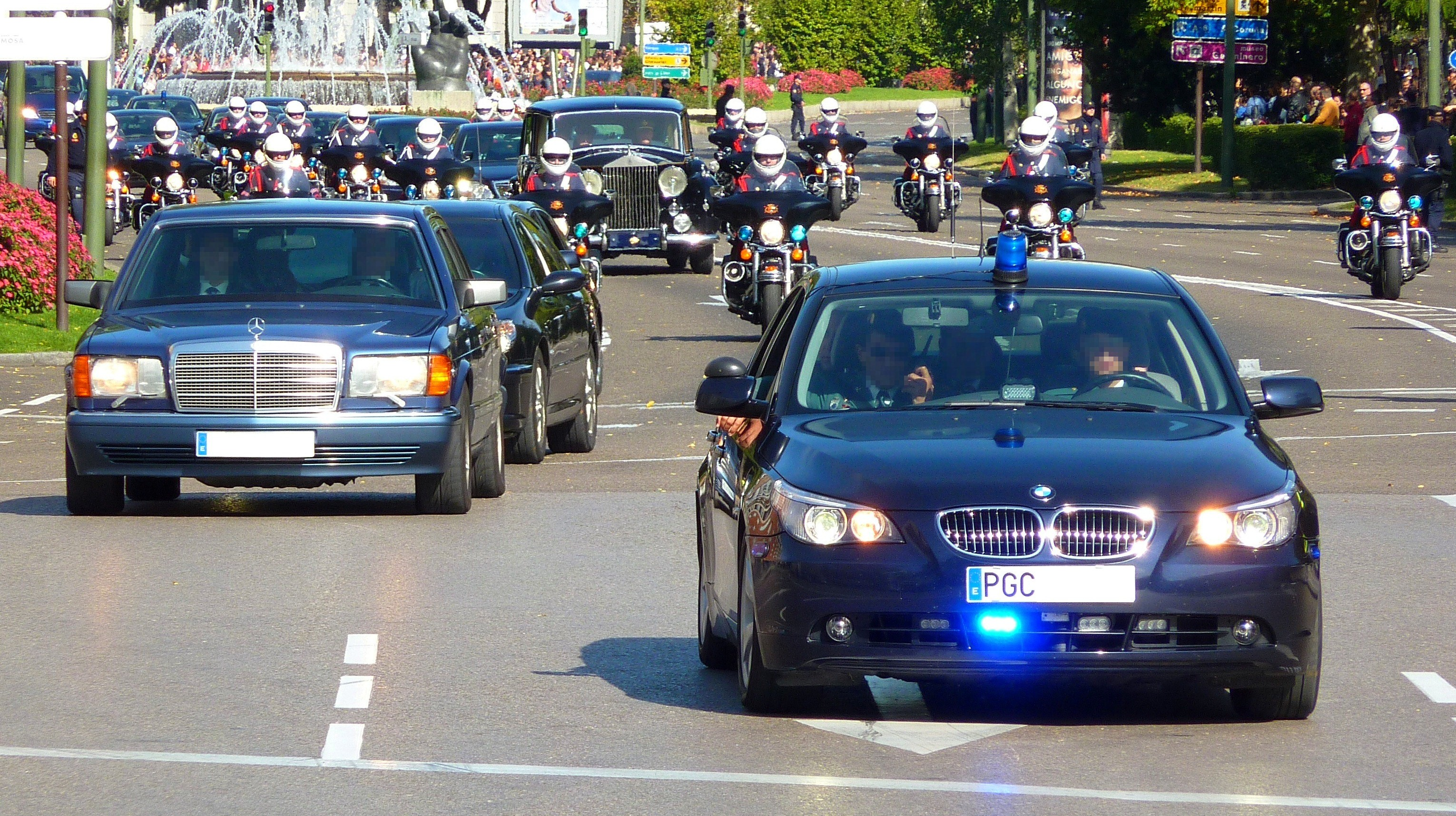 BMW 5 Series E60 of the Royal Family Detachment of the Spanish Civil Guard.